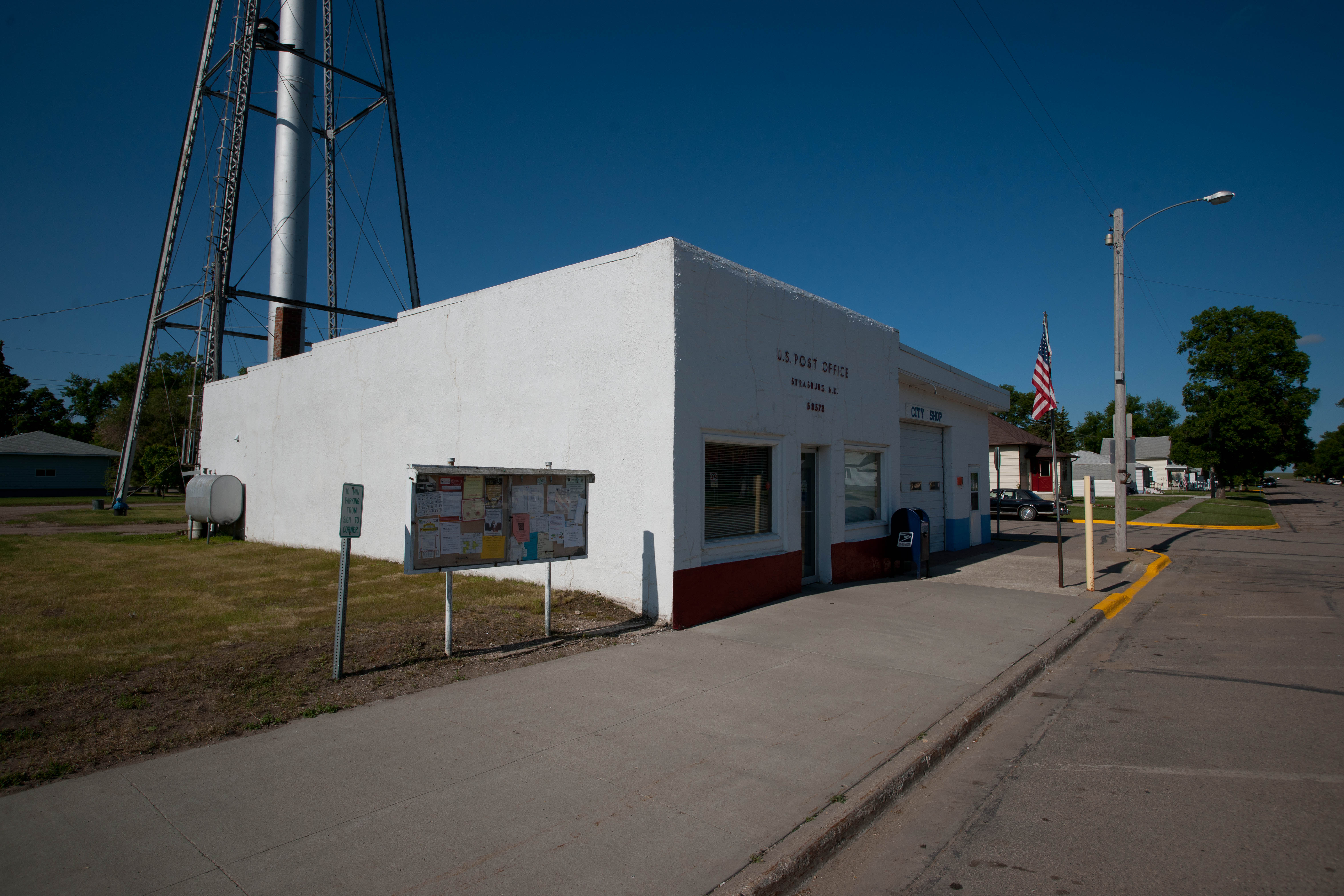 From